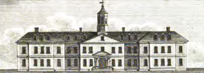 Drawing of Dr. Steevens' Hospital in 1800.